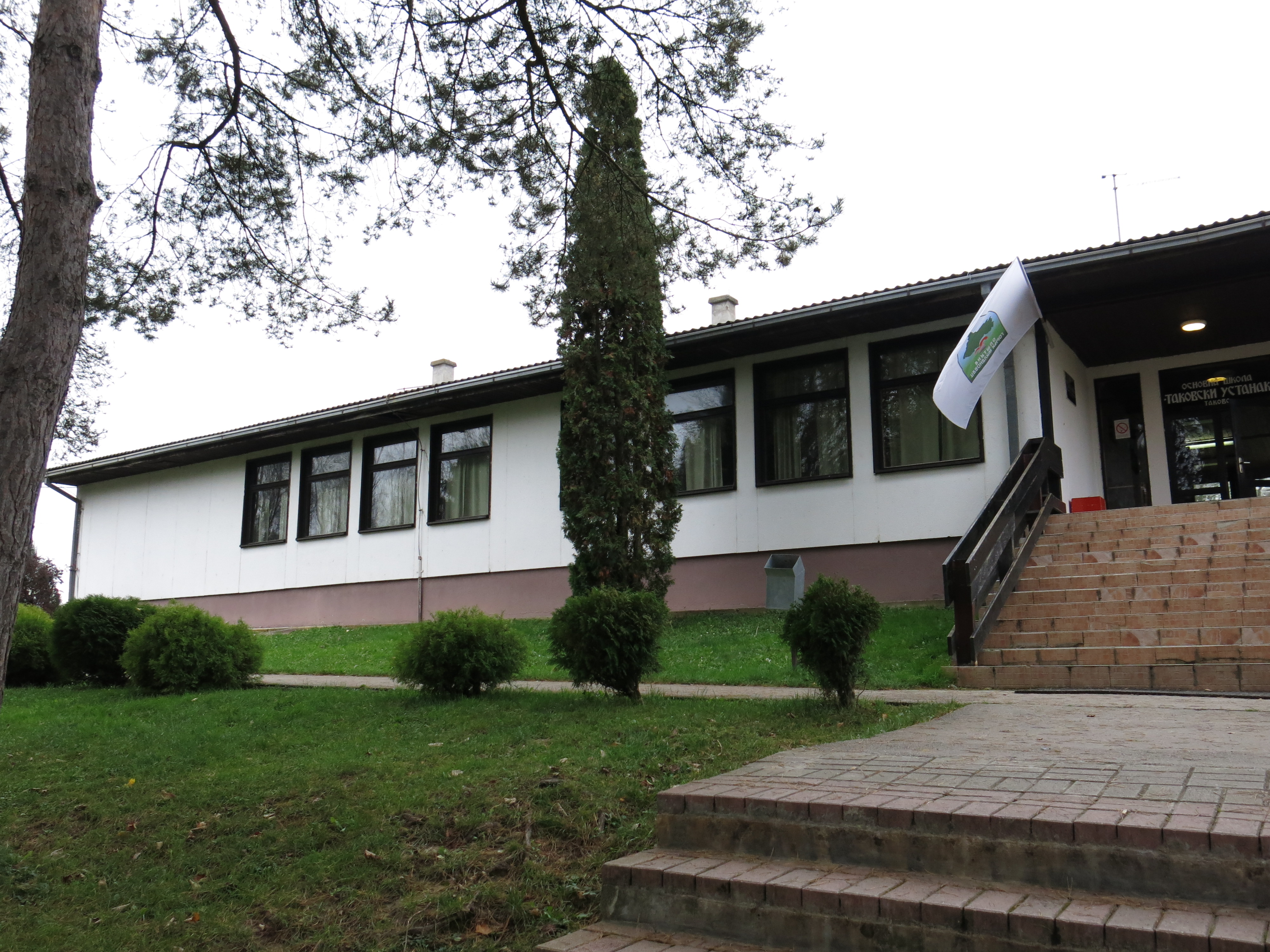 Takovo, Elementary school Takovski ustanak